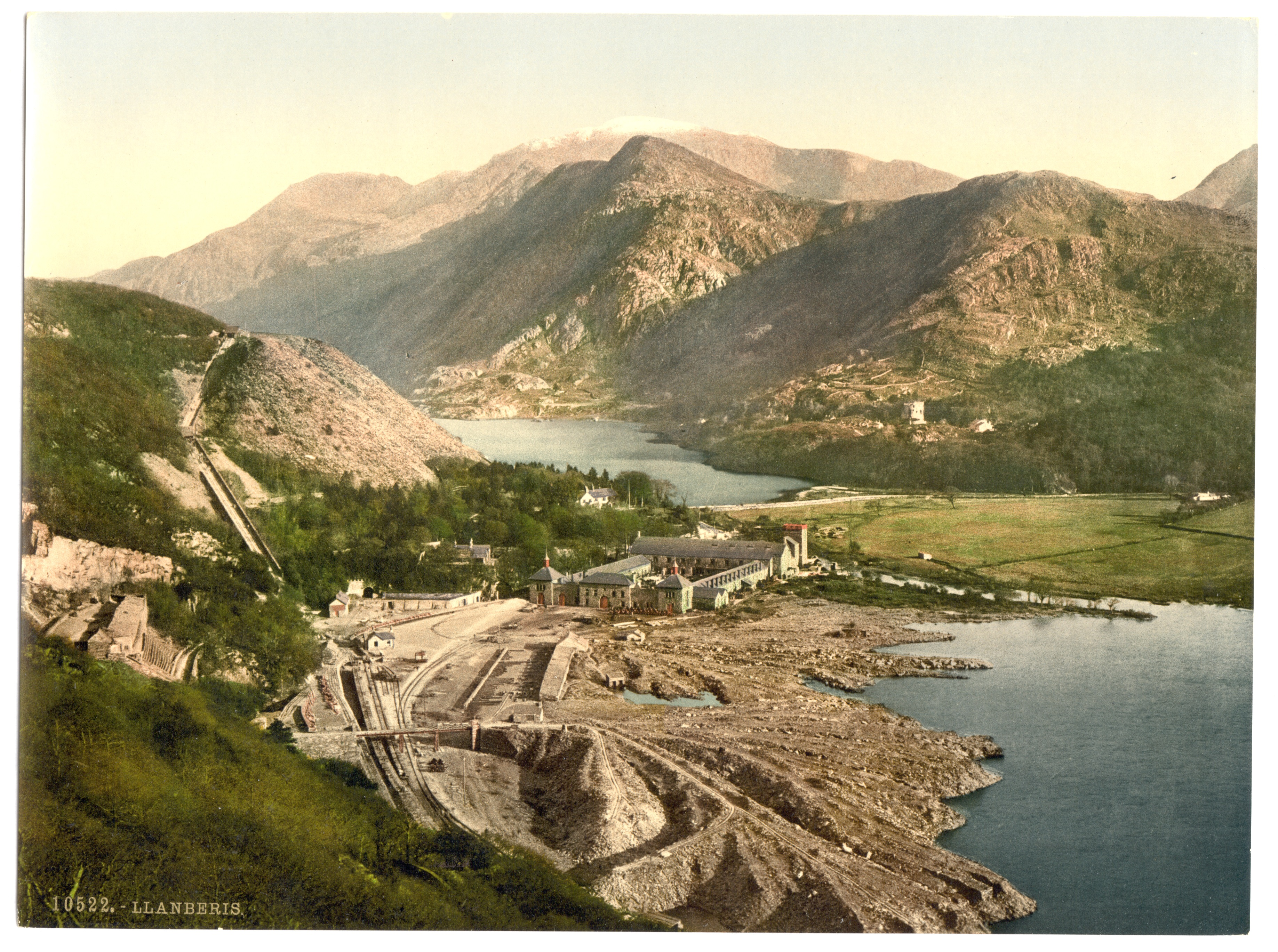 Print no. "10522".; Title from the Detroit Publishing Co., catalogue J-foreign section. Detroit, Mich. : Detroit Photographic Company, 1905.; More information about the Photochrom Print Collection is available at Forms part of: Views of landscape and architecture in Wales in the Photochrom print collection.